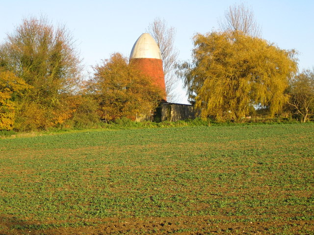 The house converted South Mill, Clavering, Essex